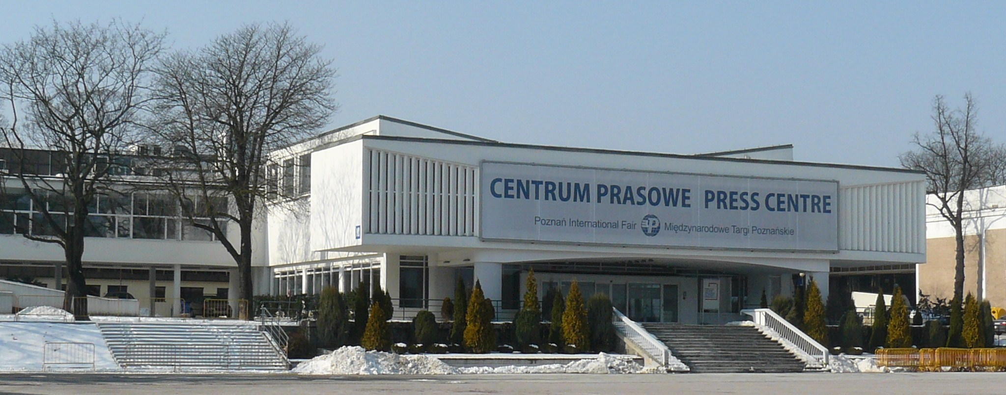 Int. Poznan Fair - pav. 10 (1949).